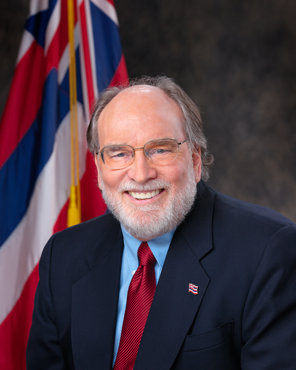 Governor Abercrombie Official Photograph